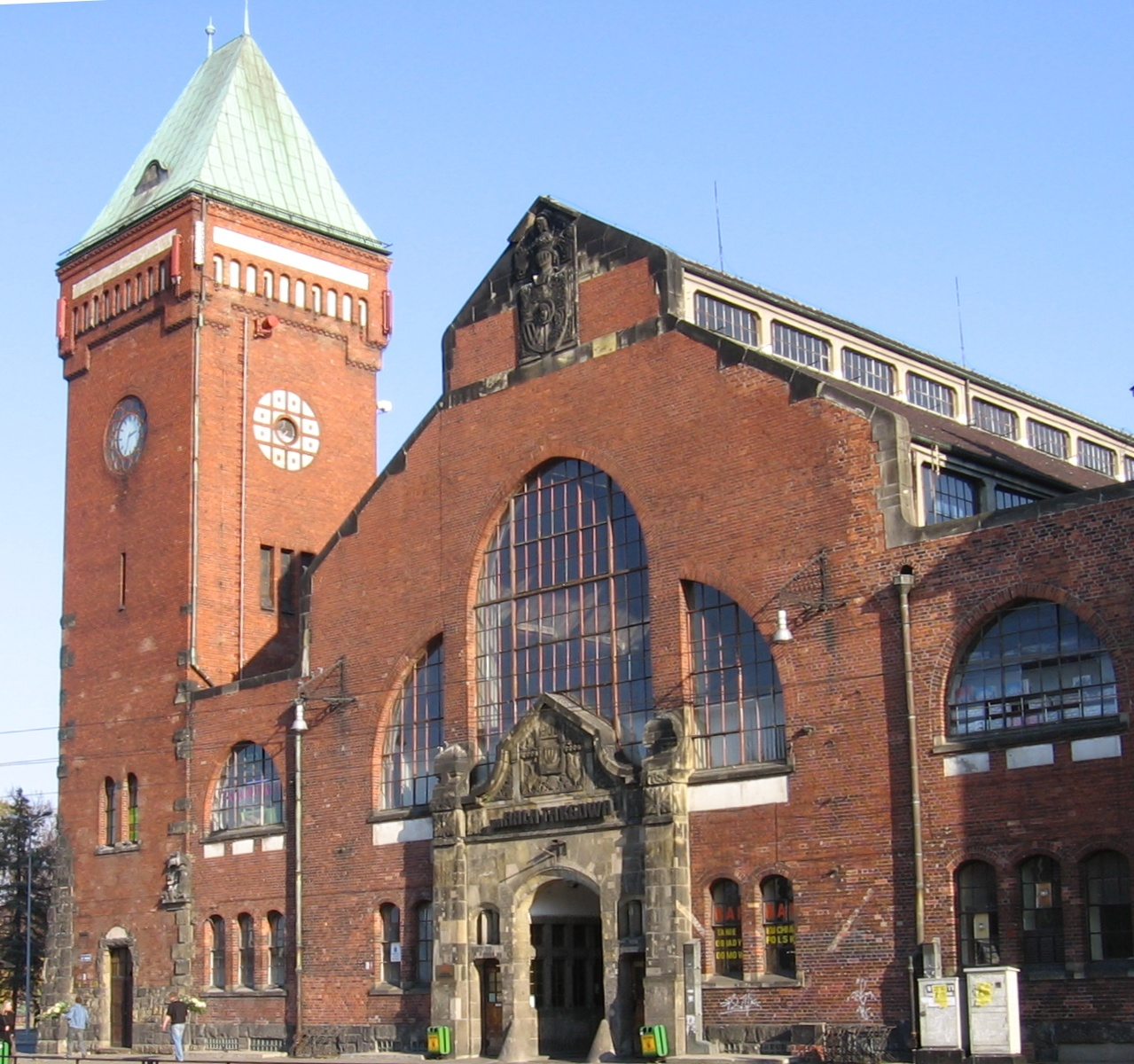 Bishop Nanker's Square: Hala Targowa (Market Hall) in Wrocław, Poland